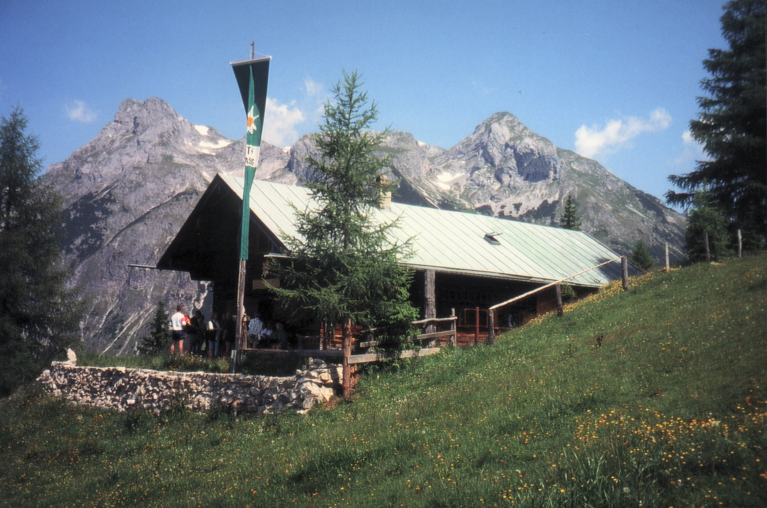 Refuge Freilassinger Hütte in the alpine region of Tennengebirge with Eiskogel (2321 m) and Tauernkogel (2247 m).